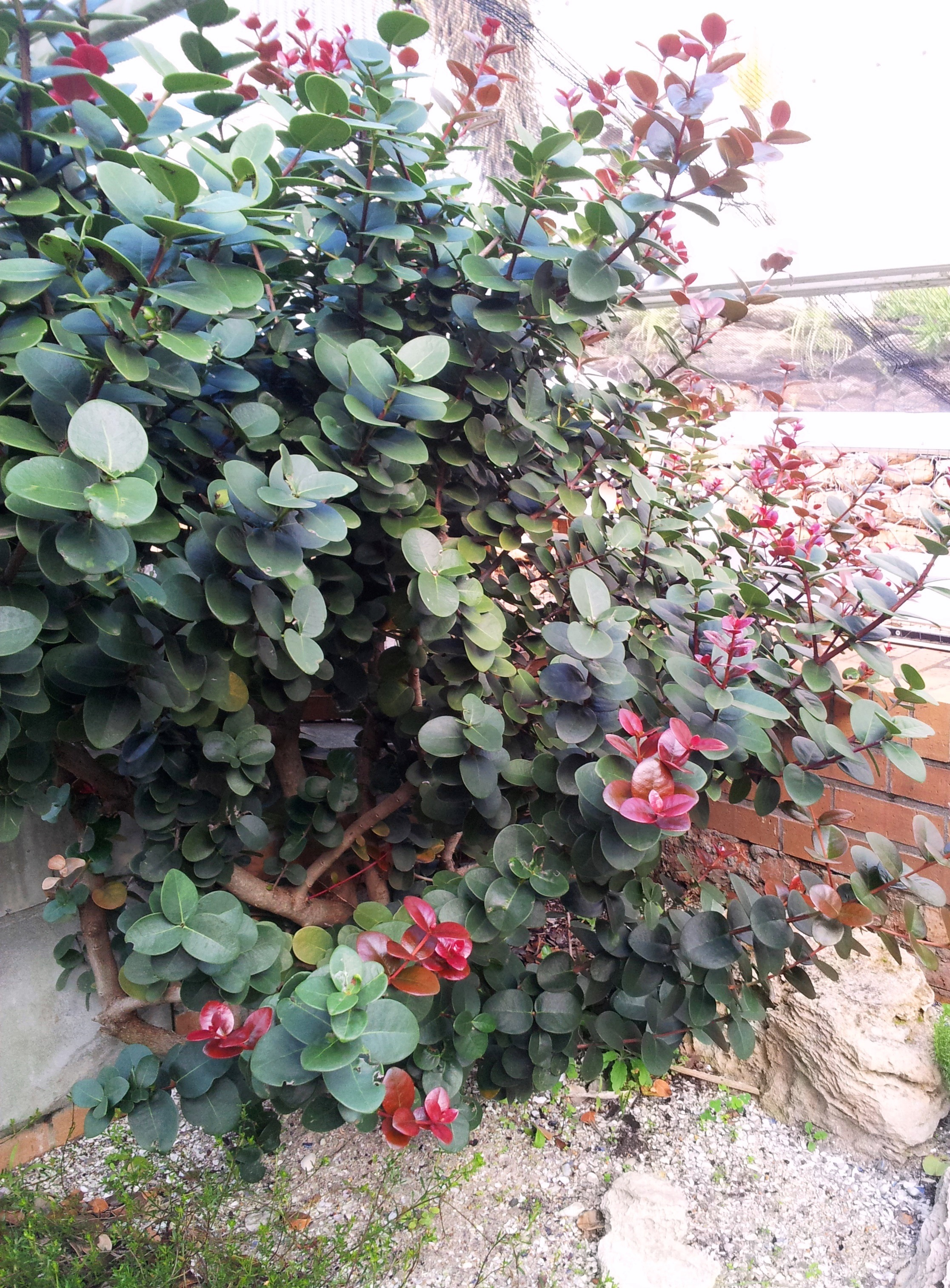 Maurocenia frangularia - Khoi Cherry bush - Cape Town botanical garden